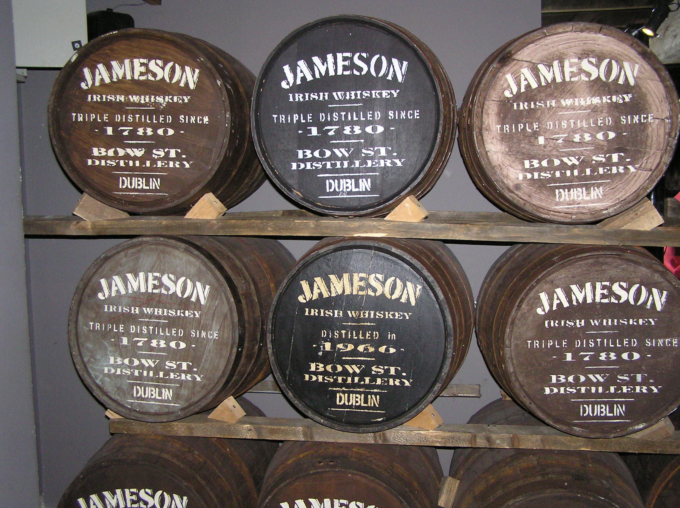 Barrels in the Jameson whiskey distillery at Dublin